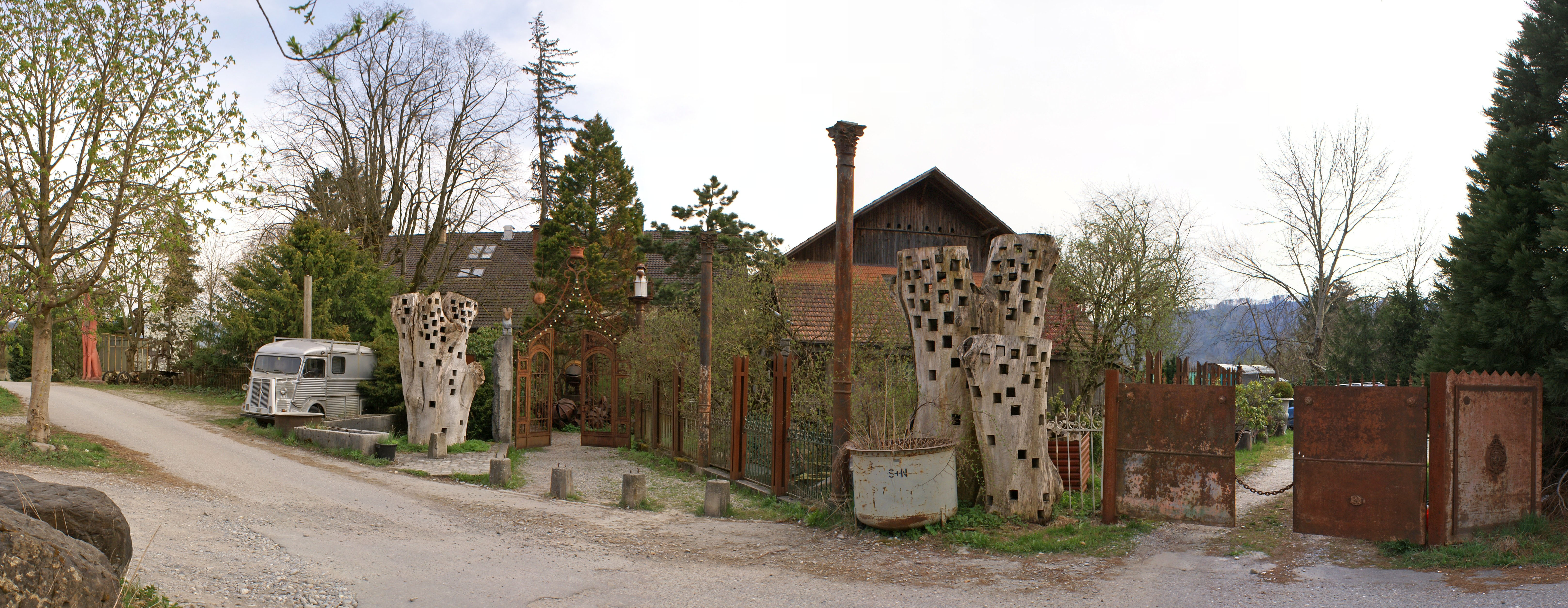 Mühle Hunziken, a well-known concert venue in Rubigen, Switzerland.